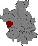 Location of Viladecavalls in Vallès Occidental